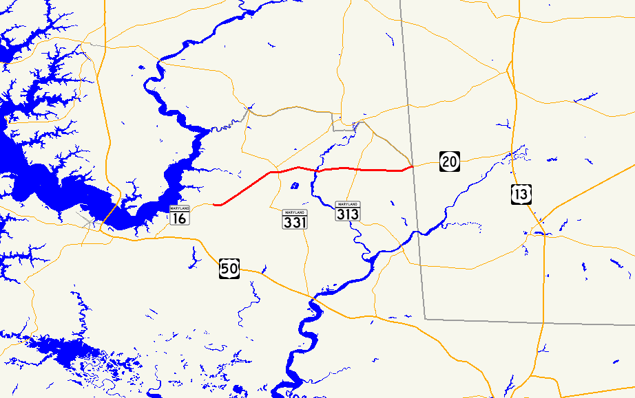 Map of Maryland 392